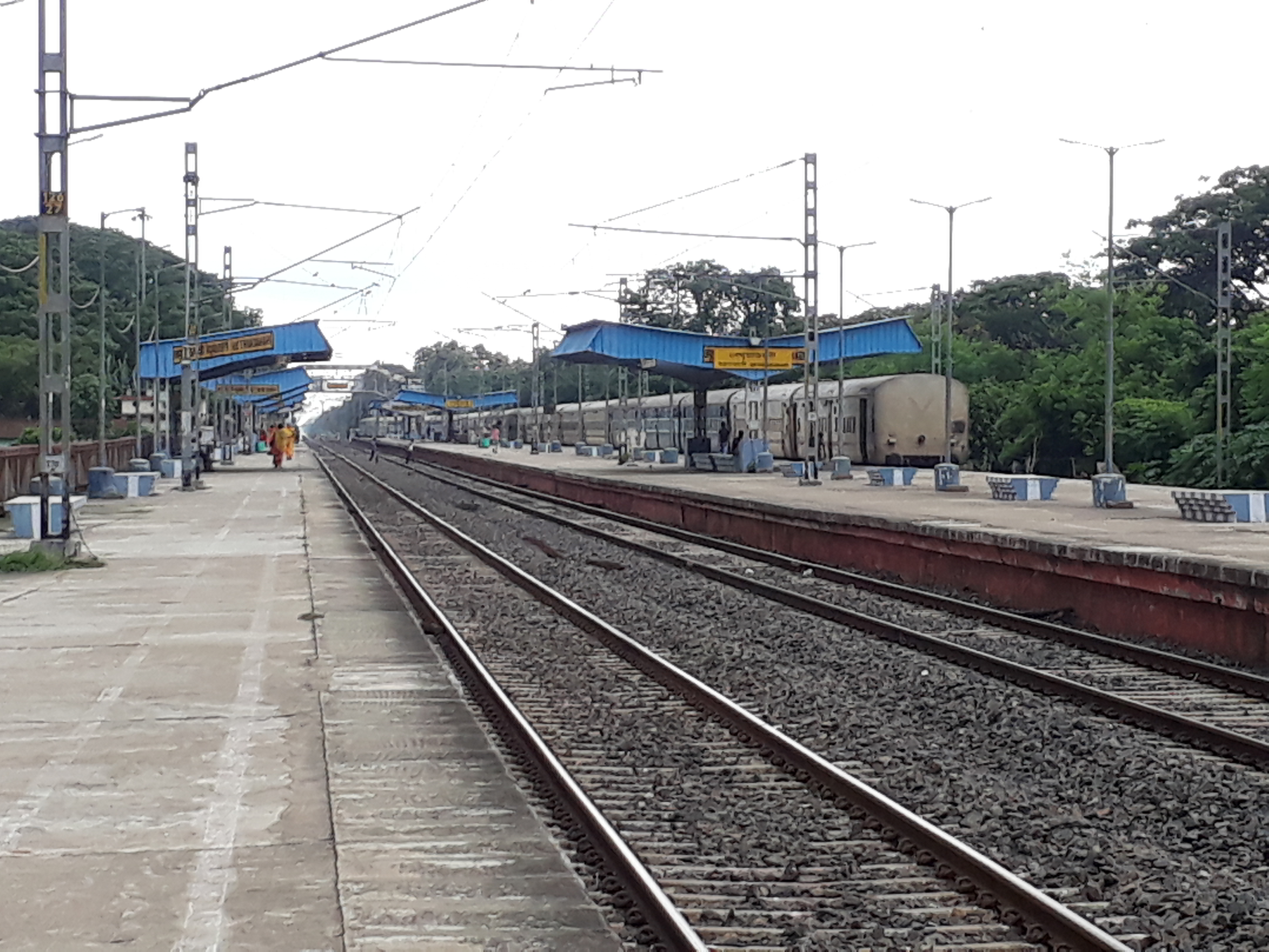 Bethuadahari railway station in Bethuadahari, situated on Ranaghat–Lalgola line in Nadia, West Bengal